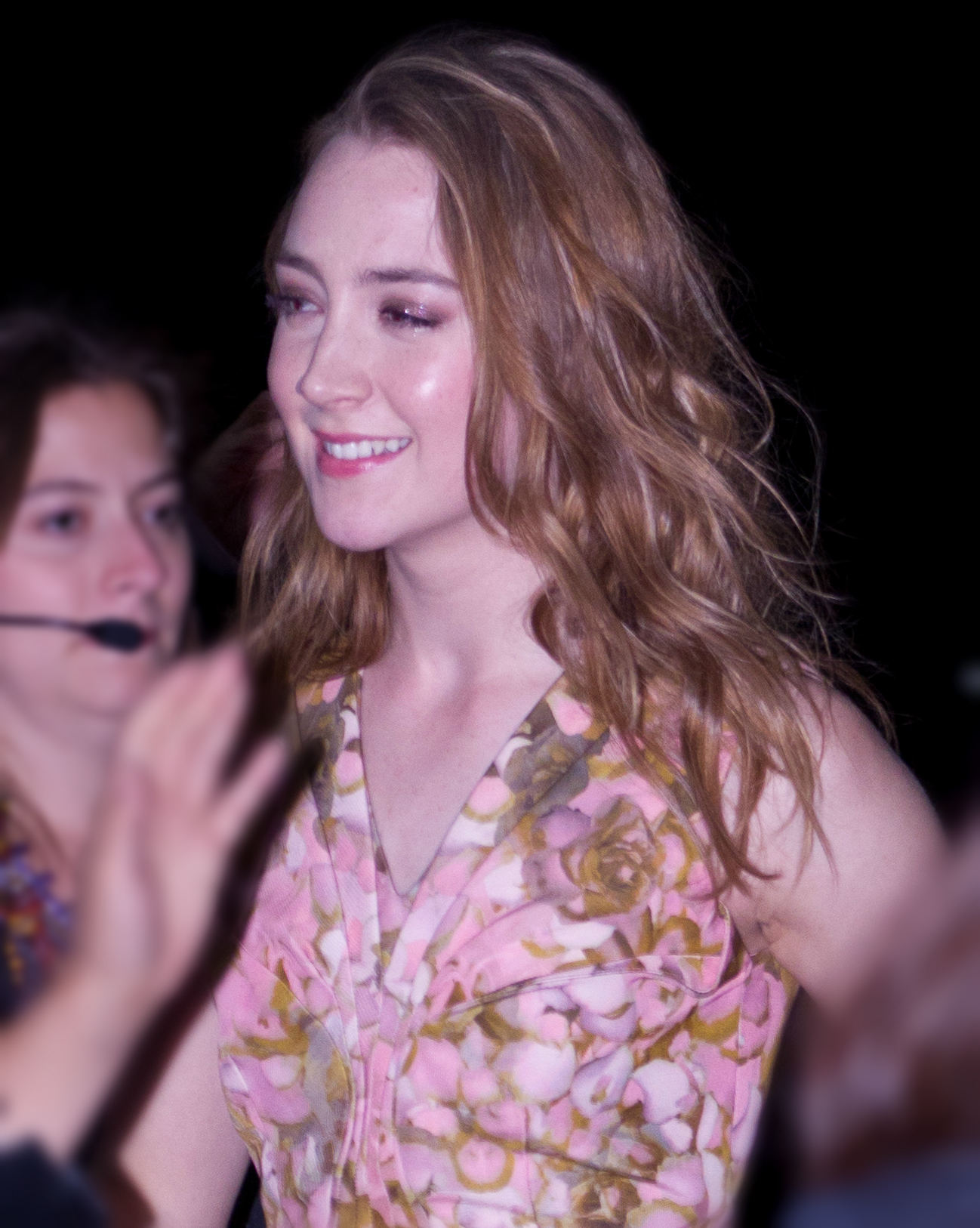 Saoirse Ronan at the premiere of Byzantium (2012) during the 2012 Toronto International Film Festival (TIFF) at the Ryerson Theatre on September 9, 2012 in Toronto, Canada.